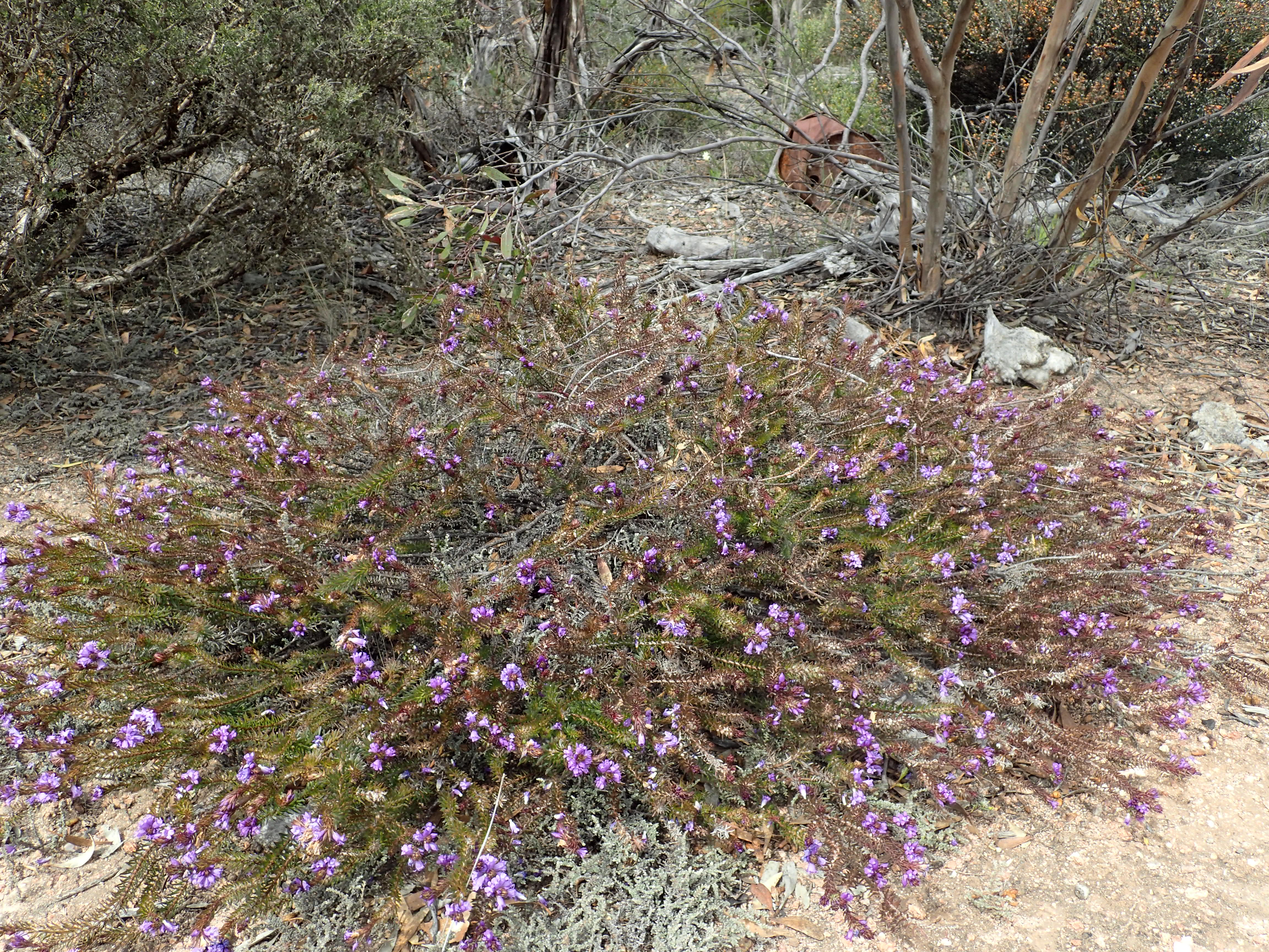 Eremophila densifolia densifolia in full flower near Ravensthorpe golf course